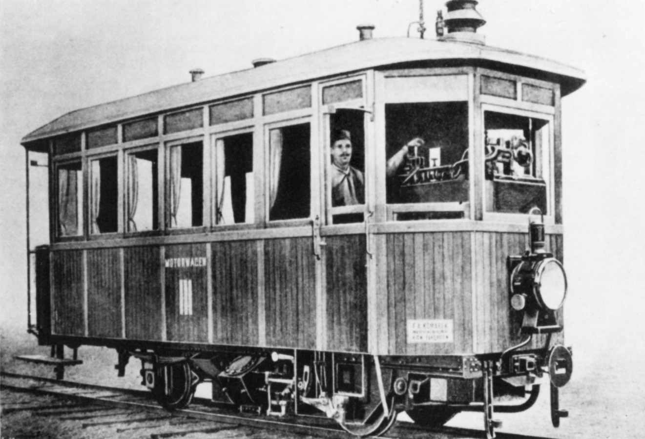 Narrow gauge steam railcar of the Niederösterreichische Landesbahn, built by Komarek of Vienna in 1903, Work's Photograph